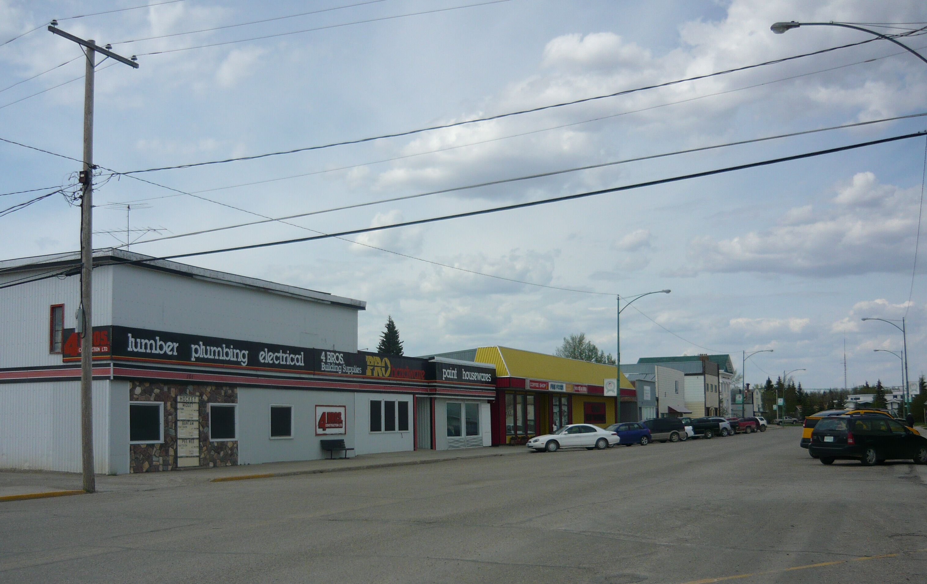 Main Street (at corner of Railway Avenue, looking northward), Watson, Saskatchewan, Canada